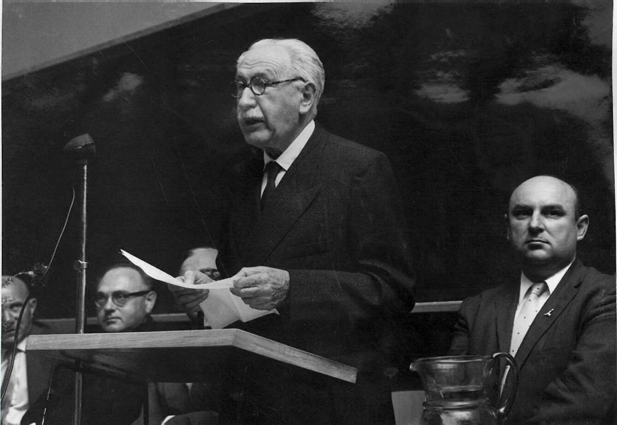 Hugo Bergman receives an Honorary Doctorate from the Hebrew University of Jerusalem